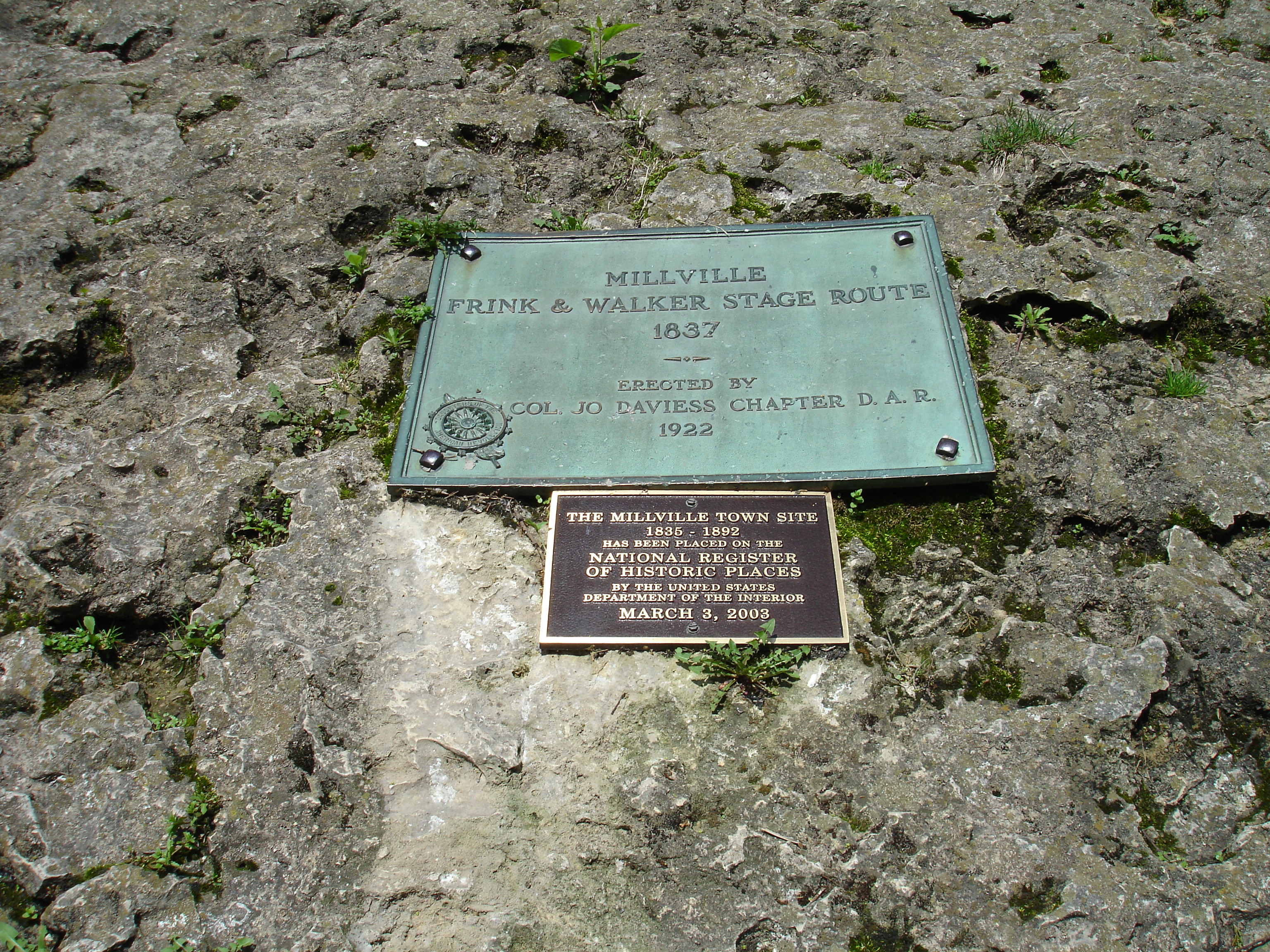 Millville Town Site, South of Apple River, Illinois, USA at Apple River Canyon State Park. U.S. National Register of Historic Places